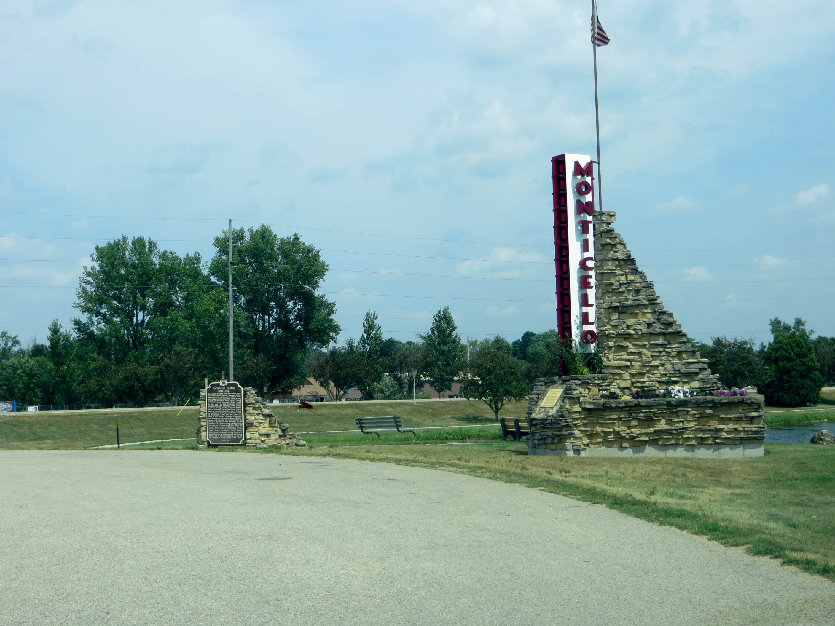 Historic plaques in Monticello, Wisconsin.